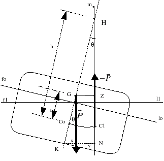 Transverse stability scheme